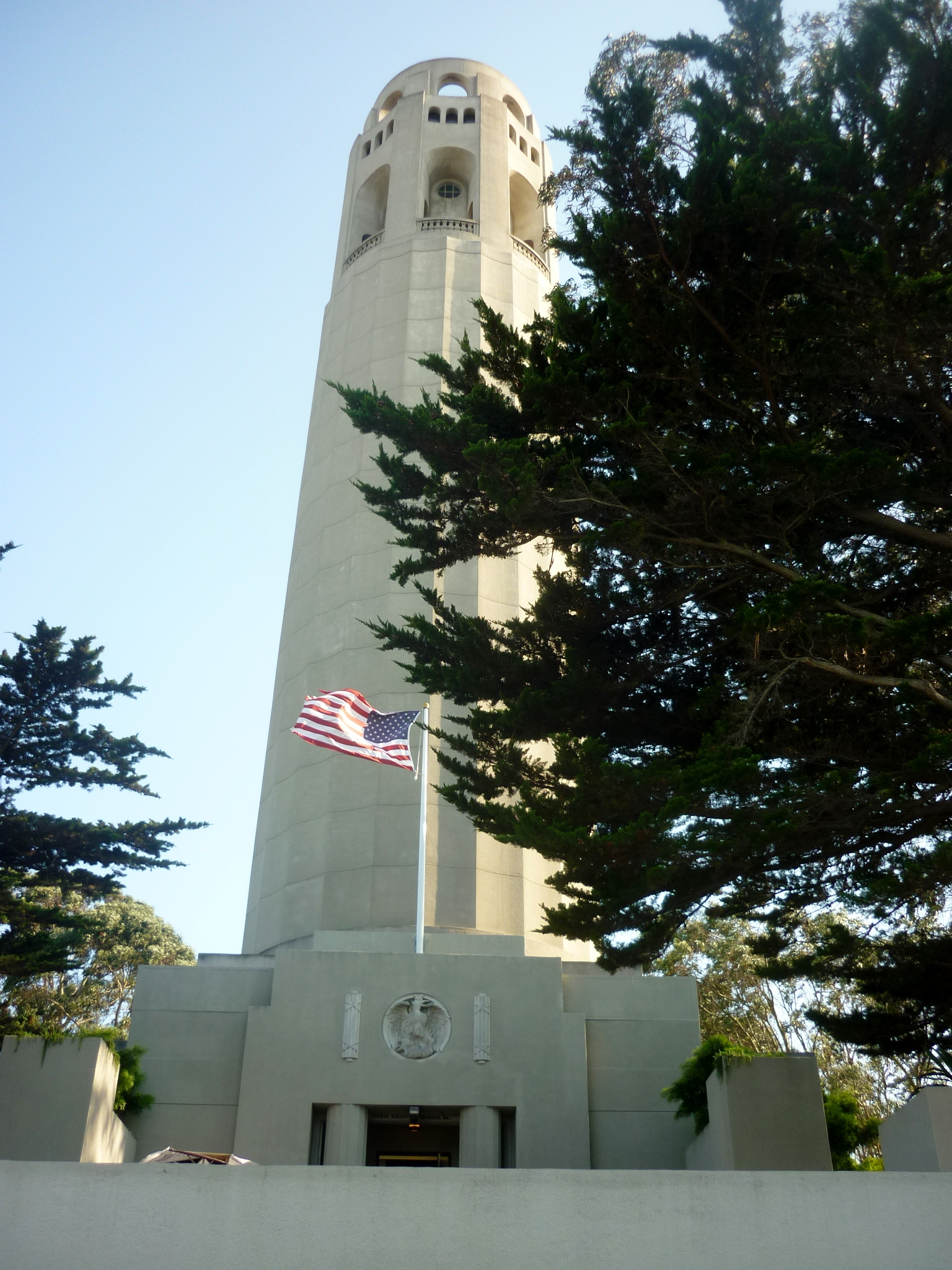 Coit Tower San Francisco